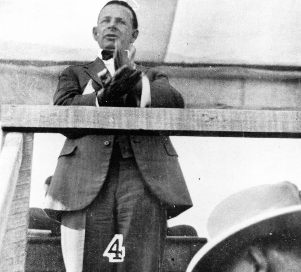 Minister for Railways, The Honourable James Larcombe speaking at Longreach, 1928. Minister Larcombe was speaking at the official opening of the Longreach to Winton railway track.